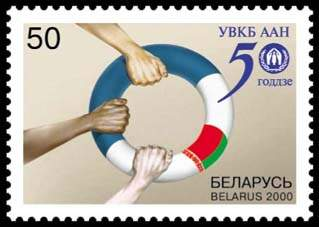 Stamp of Belarus